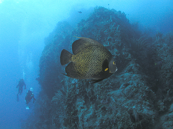 Divers and French Angelfish next to Diamond Rock, Saba, Netherlands Antilles. Image taken by Clark Anderson/Aquaimages.